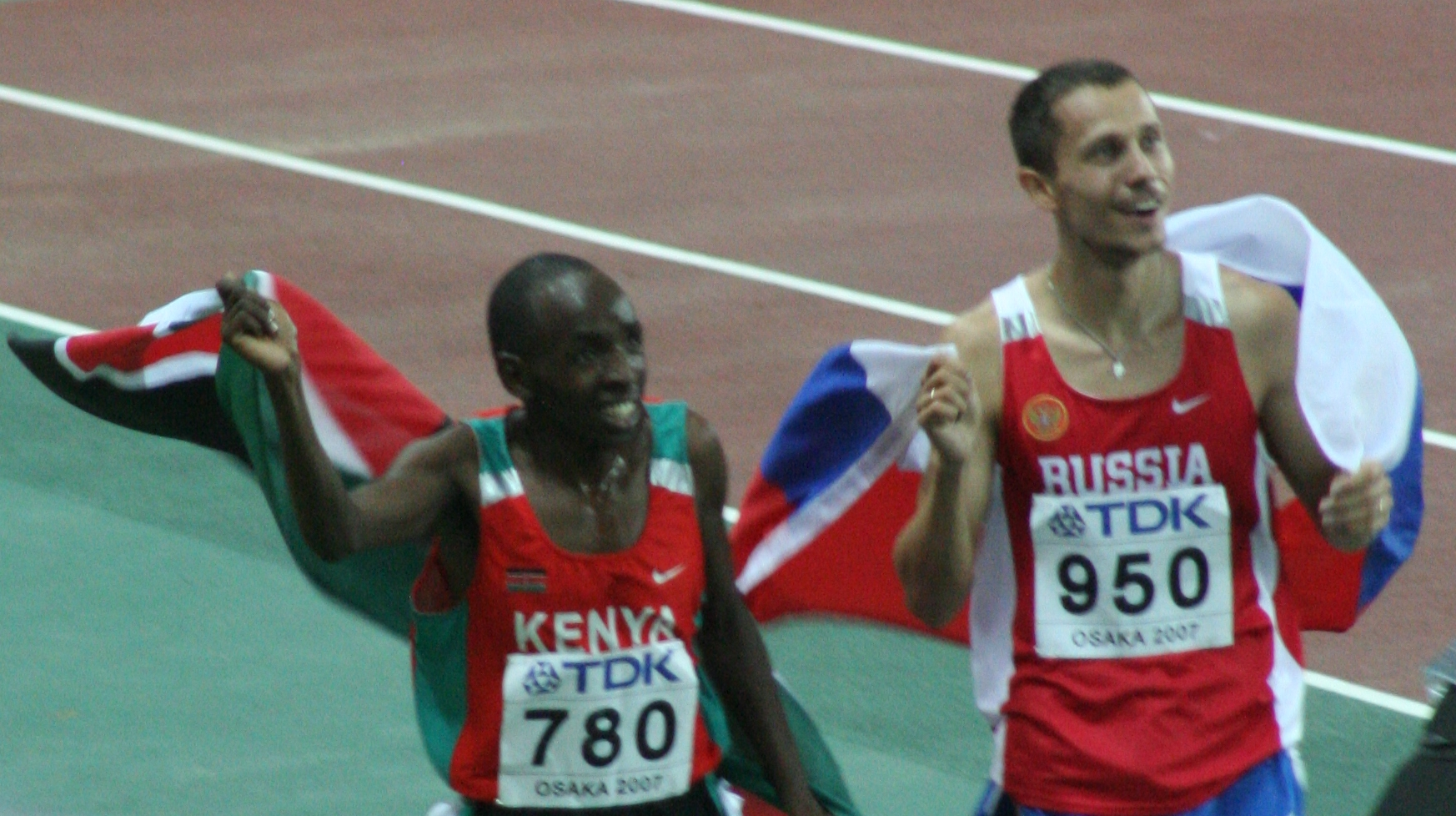 World Athletics Championships 2007 in Osaka - Alfred Kirwa Yego and Yuri Borzakovski celebrating their first and third place in the men's 800 metres final